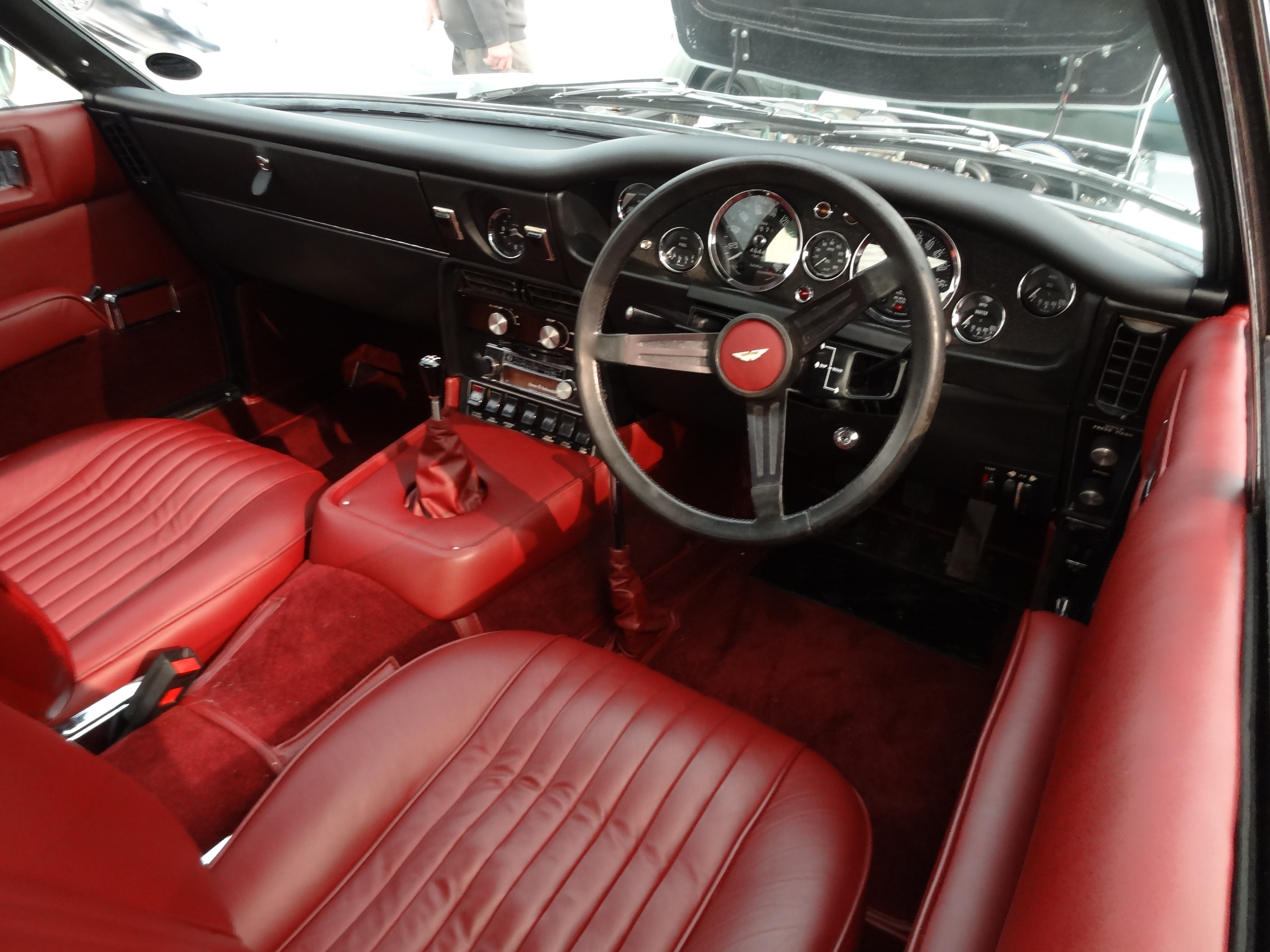 BROOKLANDS HISTORIC CAR AUCTION